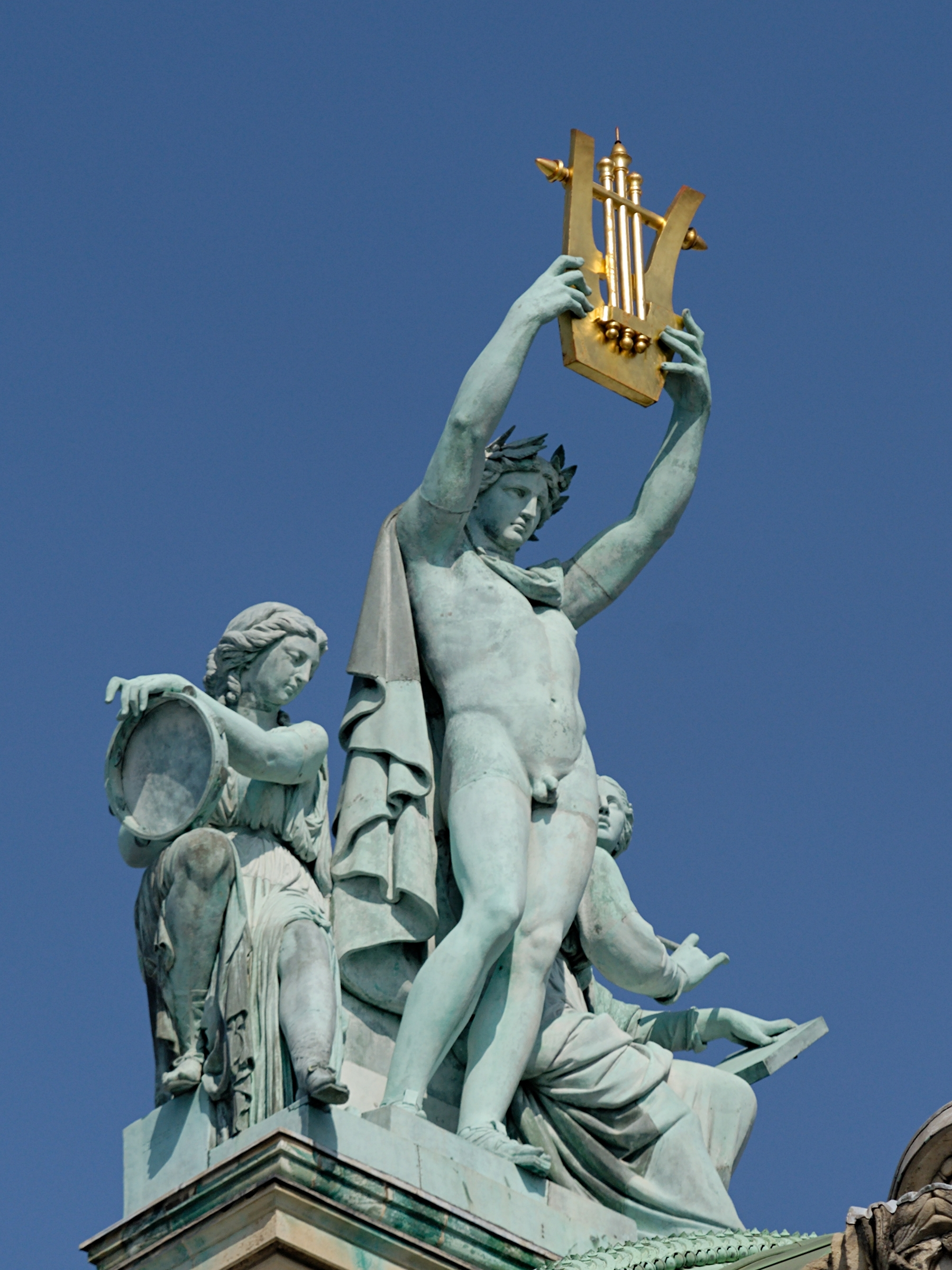 Apollo, Poetry and Music by Aimé Millet (ca. 1860–1869), viewed from the Western side (Rue Auber). Roof of the Palais Garnier, Paris.